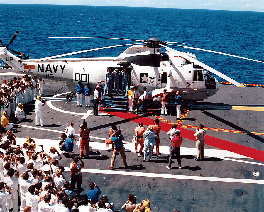 The Apollo 16 crew exits the Sikorsky SH-3G Sea King recovery helicopter (BuNo 149930) of Helicopter Combat Support Squadron 1 (HC-1) aboard the U.S. Navy aircraft carrier USS Ticonderoga (CVS-14) on 29 April 1972.